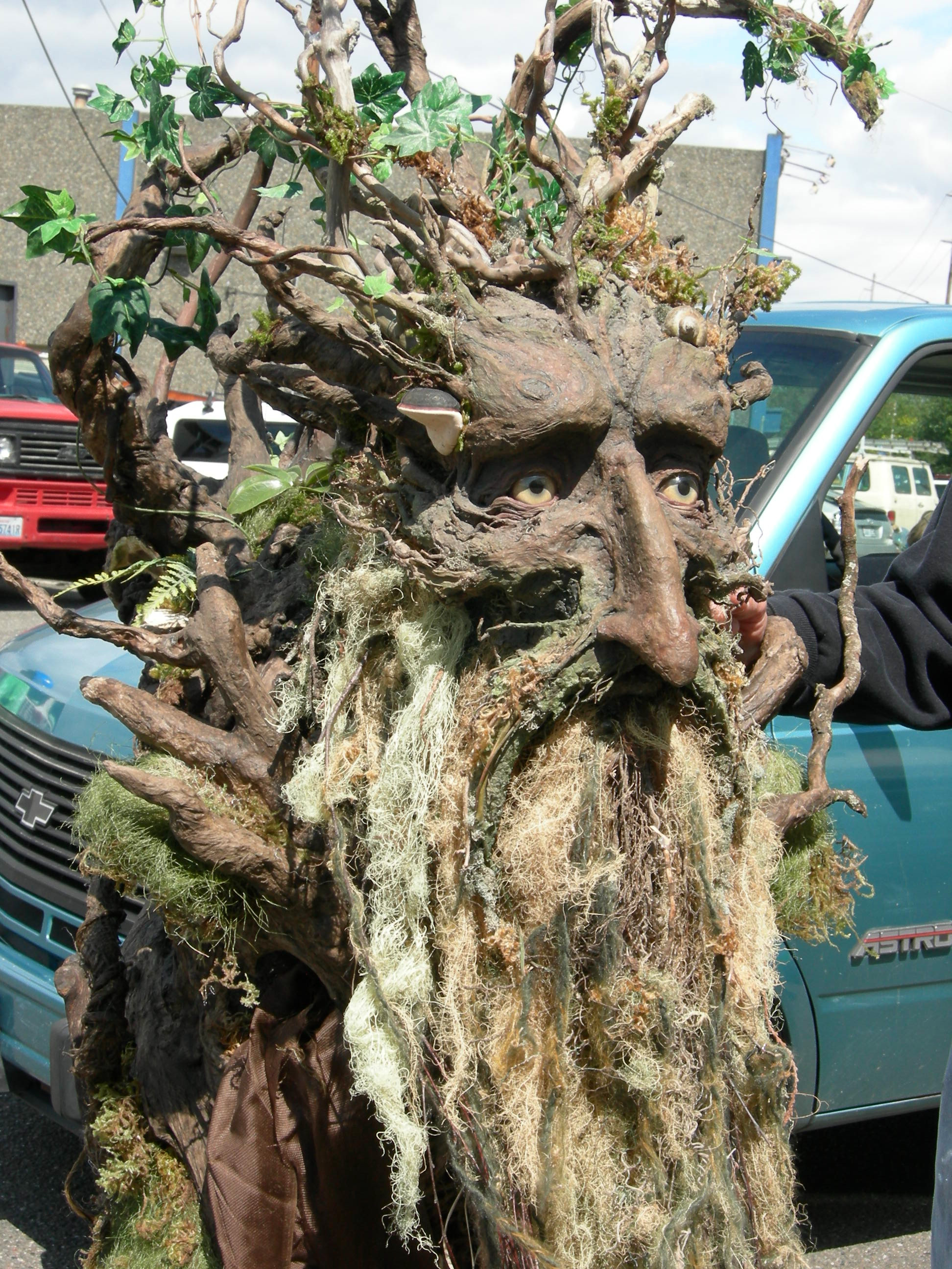 People in what were self-identified as ent costumes, but clearly also owe a lot to the related "green man" tradition, preparing for the 2007 Summer Solstice Parade and Pageant, Fremont Fair, Seattle, Washington.